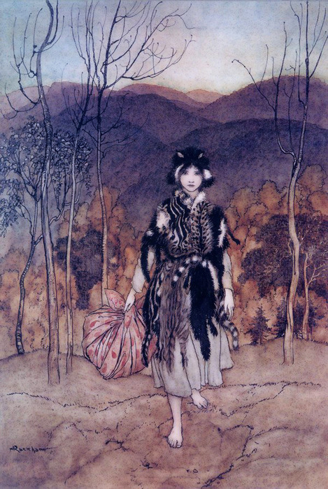 Allerleirauh by Arthur Rackham